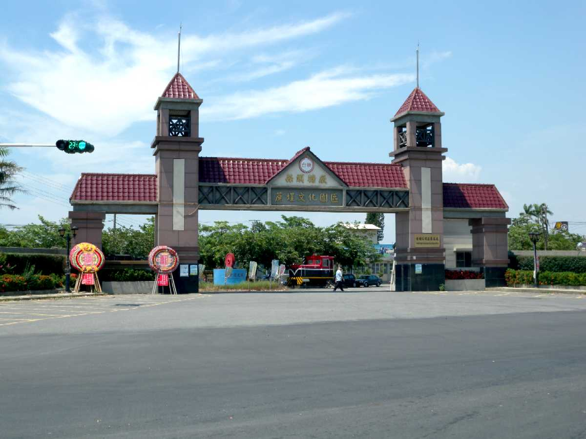 Suantou Sugar Factory, Liujiao Township, Chiayi County, Taiwan